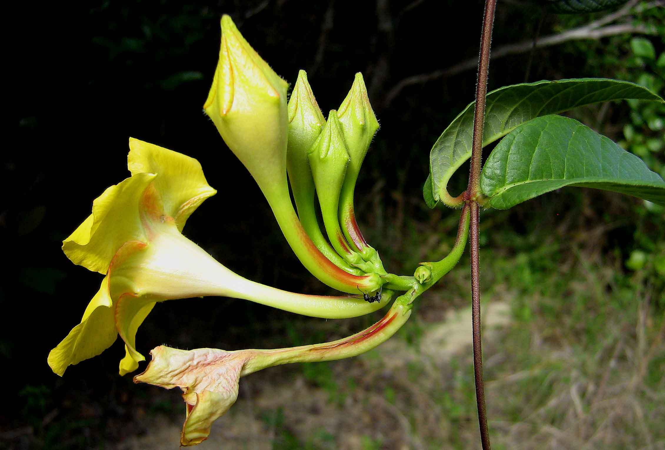 Mandevilla scabra (Roem. & Schult.) K. Schum. Mandevilla scabra